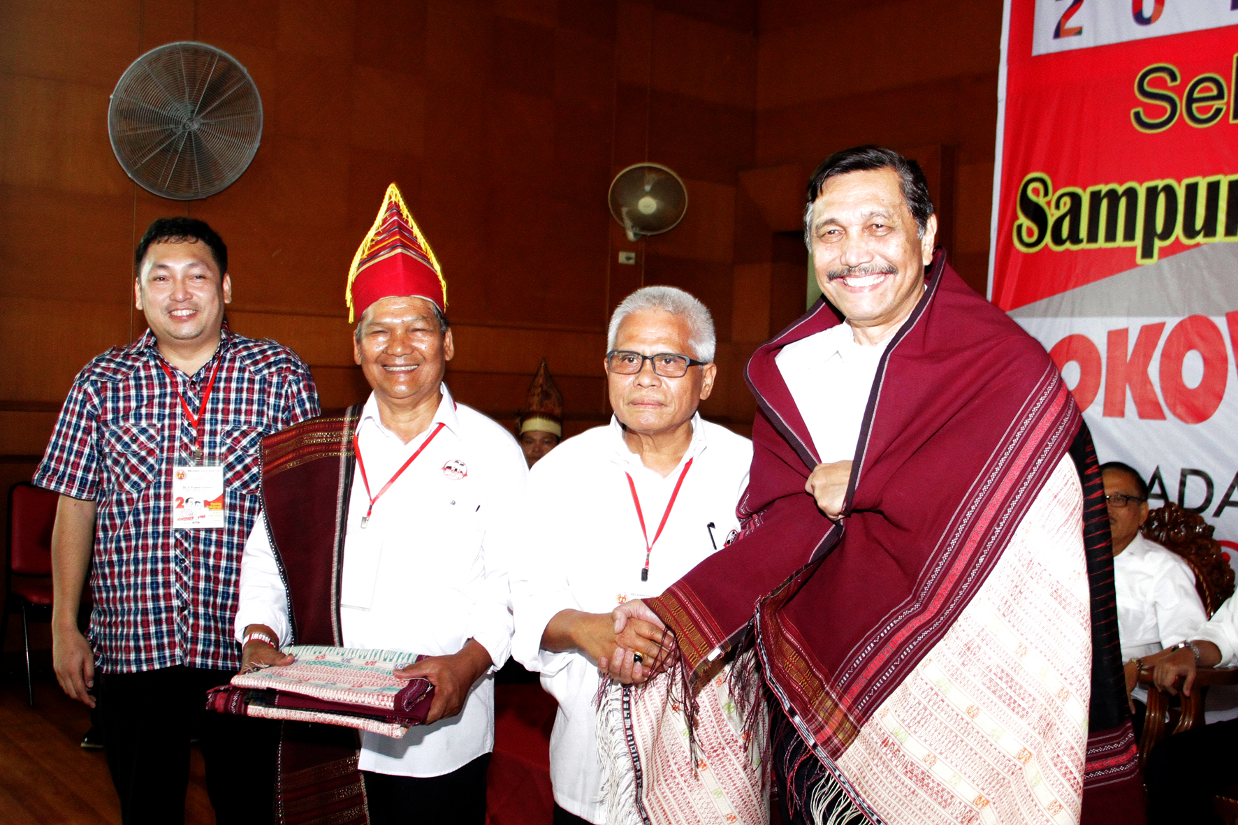 Relawan Kasih Martabe